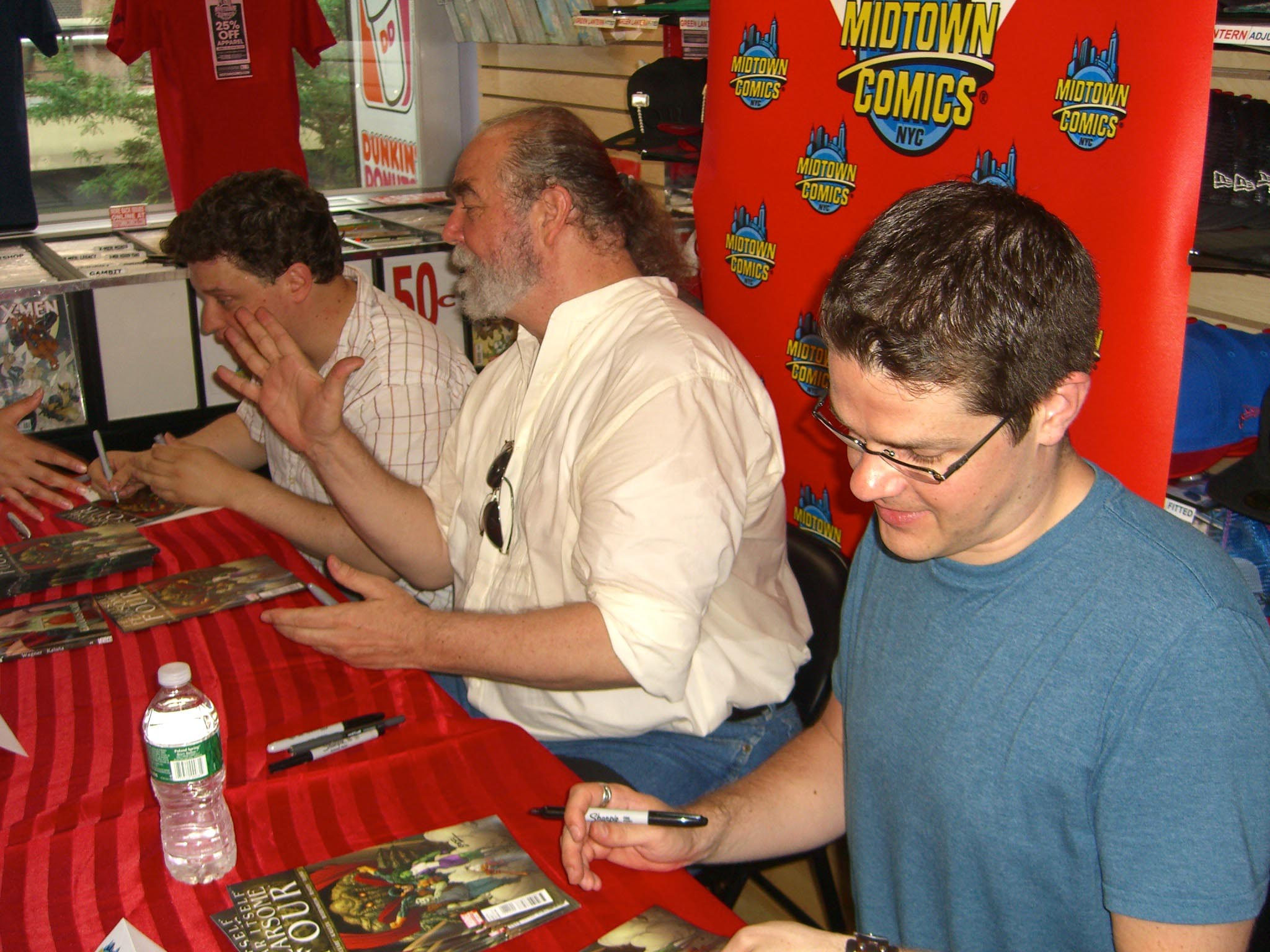 From left to right: Comic book creators Brandon Montclare, Michael Kaluta and Ryan Bodenheim at a June 8, 2011 signing for Fear Itself: Fearsome Four #1 at Midtown Comics (Downtown branch) in Manhattan. Photographed by Luigi Novi. This photo is not in the public domain. It may, however, be used, modified and published for any purpose, free of charge, only if the photographer is properly credited, either by linking the photograph to this page, or with an easily visible credit to the photographer placed near the photo in each instance in which it is used. (See licensing information below.) Publication of this photo without this proper attribution constitutes copyright infringement. If you have any questions, you can contact me on my Wikipedia Talk Page.